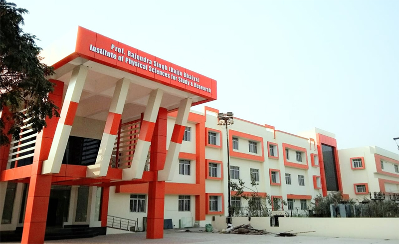 Building of Research Institute in VBSPU